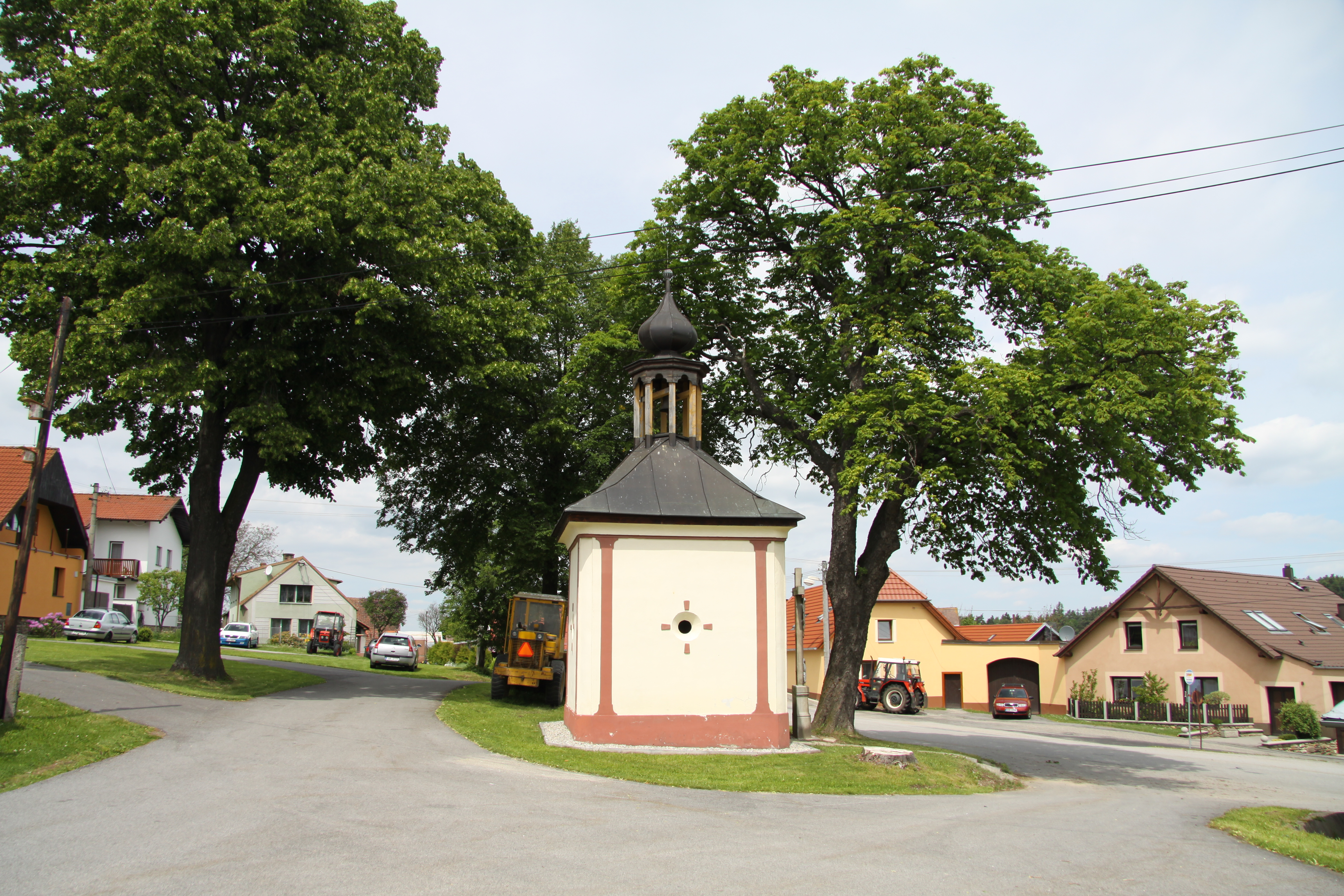 Chapel in Zdenice village, part of Nebahovy village, Prachatice District, Czech Republic - Google Maps - Google Earth